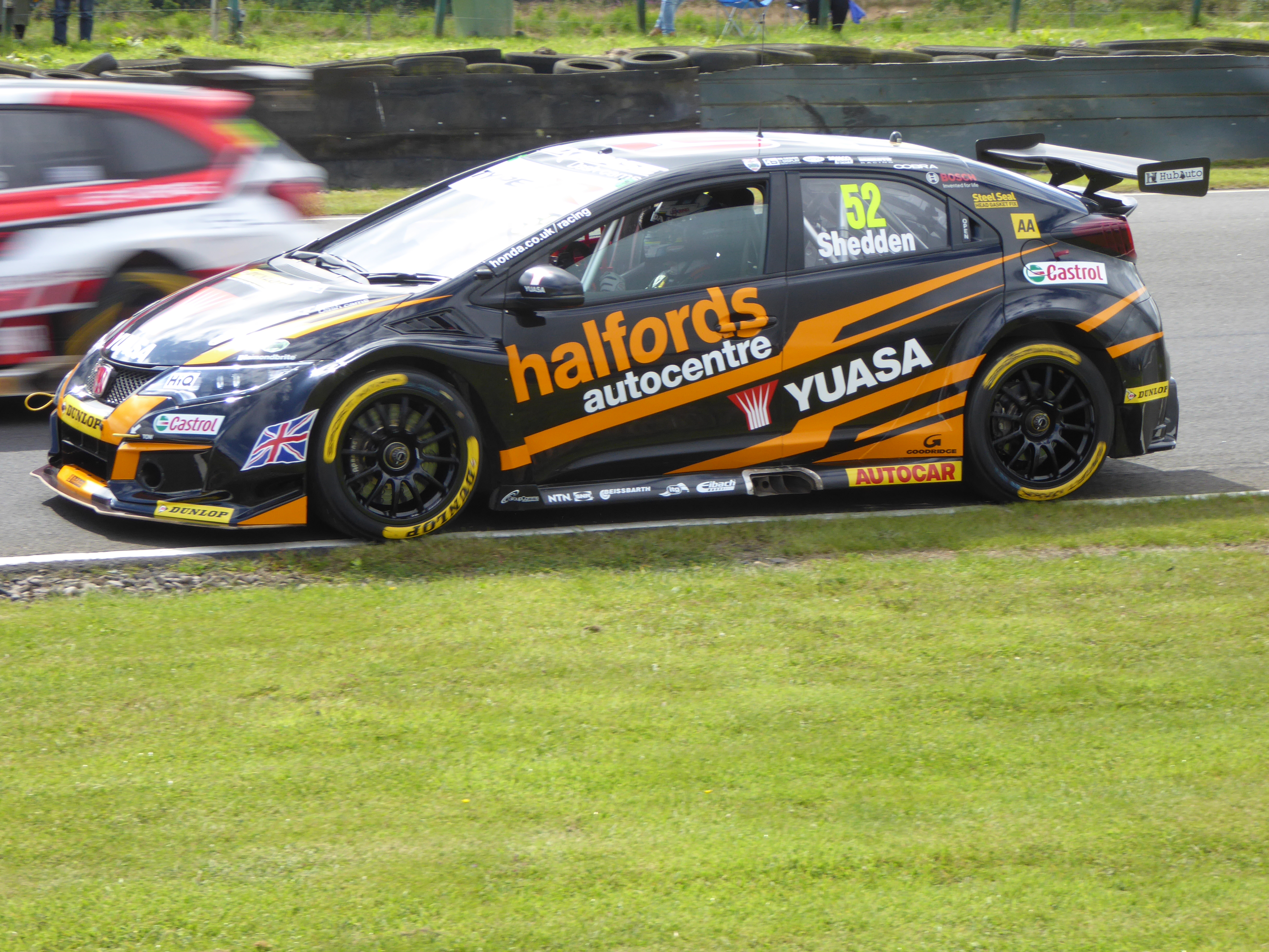 Gordon Shedden (Halfords Yuasa Racing), at the Knockhill round of the 2017 British Touring Car Championship.